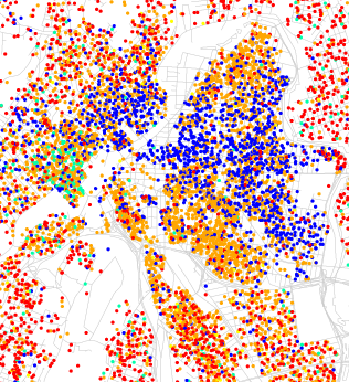 Maps of racial and ethnic divisions in US cities, inspired by Bill Rankin's map of Chicago, updated for Census 2010. Red is White, Blue is Black, Green is Asian, Orange is Hispanic, Yellow is Other, and each dot is 25 residents. Data from Census 2010. Base map © OpenStreetMap, CC-BY-SA